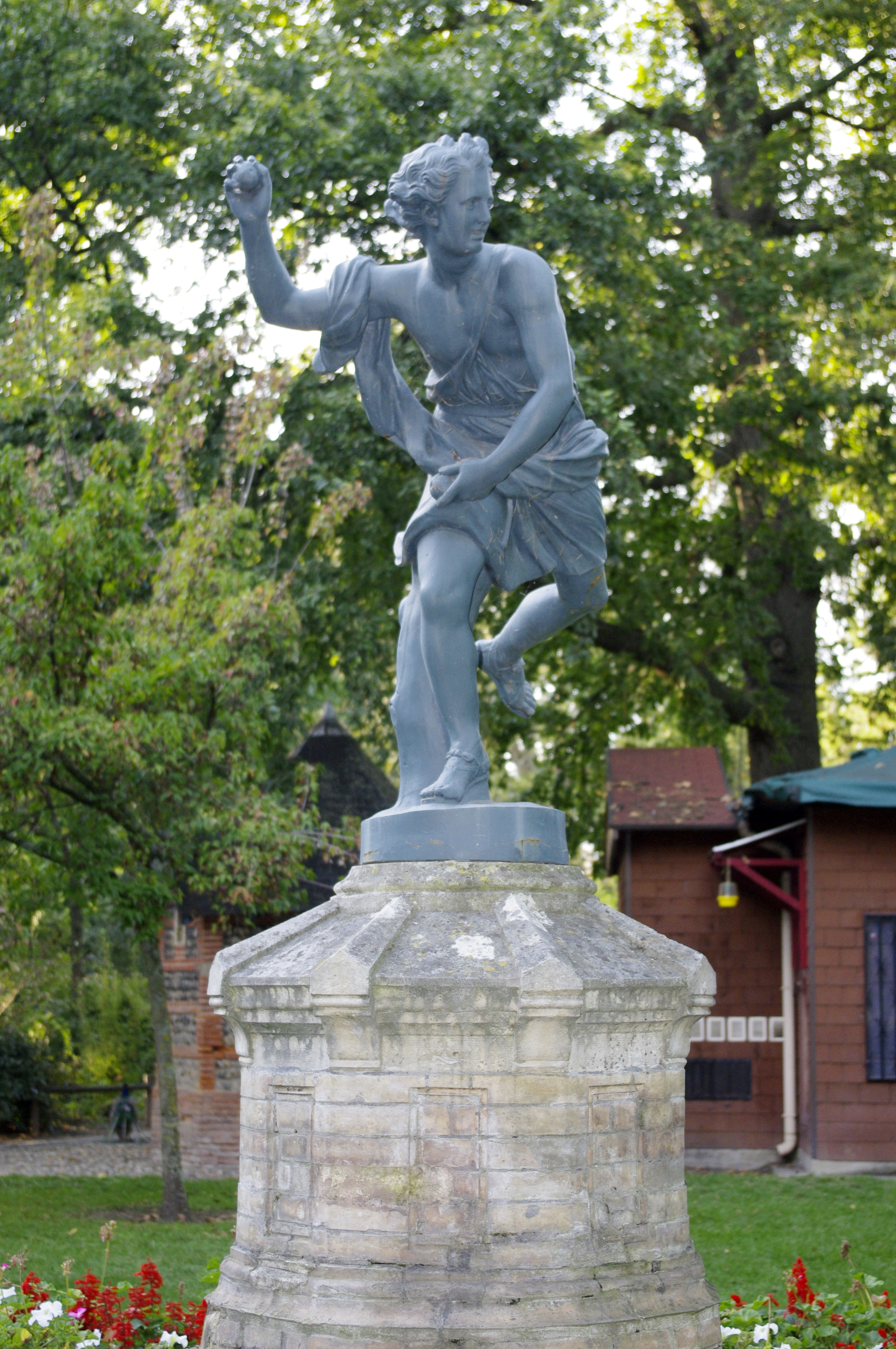 Statue of Hippomenes by Guillaume Coustou the Elder (1677-1746) in the Jardin des Plantes of Toulouse (copy)